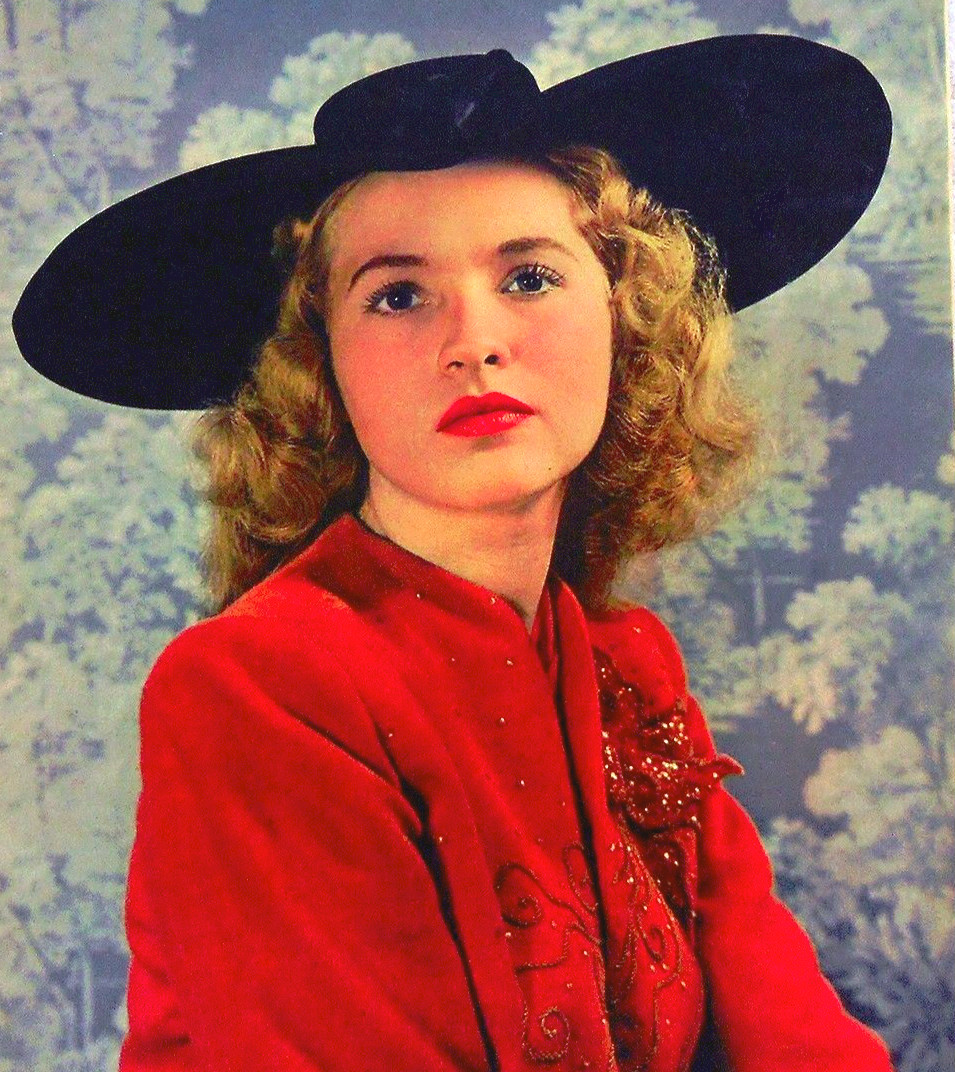 Photo of Susanna Foster New York Sunday News in 1941. The cate can be seen at upper right of the uncropped page.